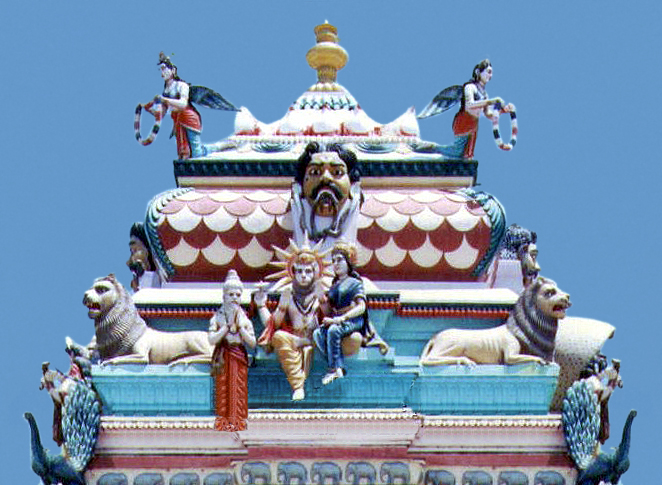 The Gopuram of Antarvedi Temple